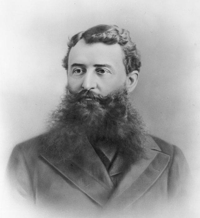 Photo of Eli Houston Murray, governor of the territory of Utah from 1880-1886.